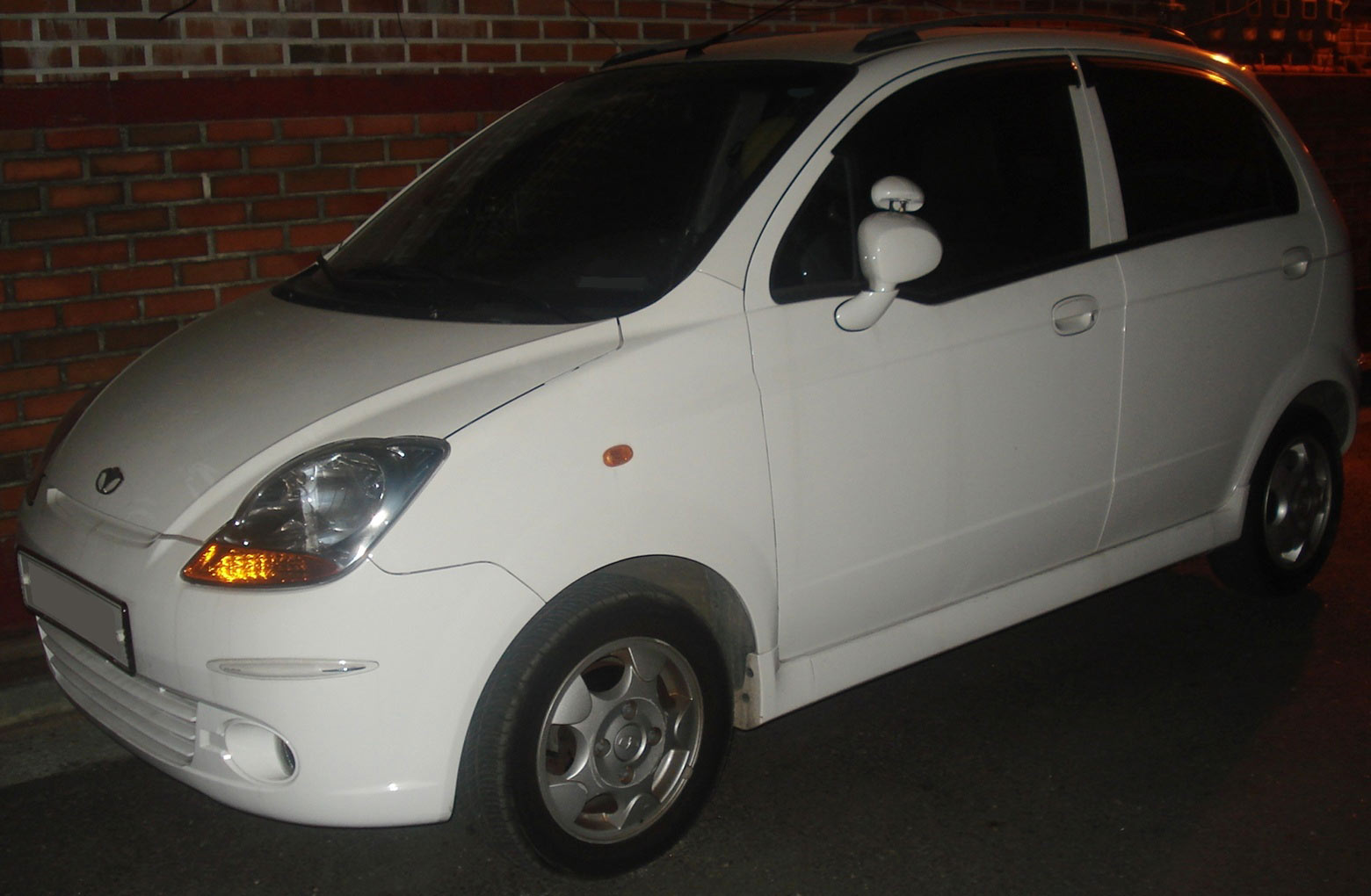 Daewoo All New Matiz